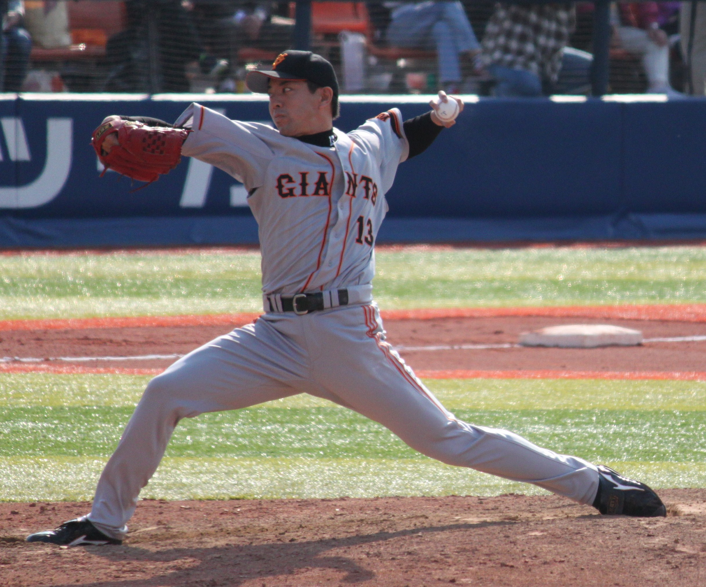 Yasunari Takagi, pitcher of the Yomiuri Giants, at Yokohama Stadium.